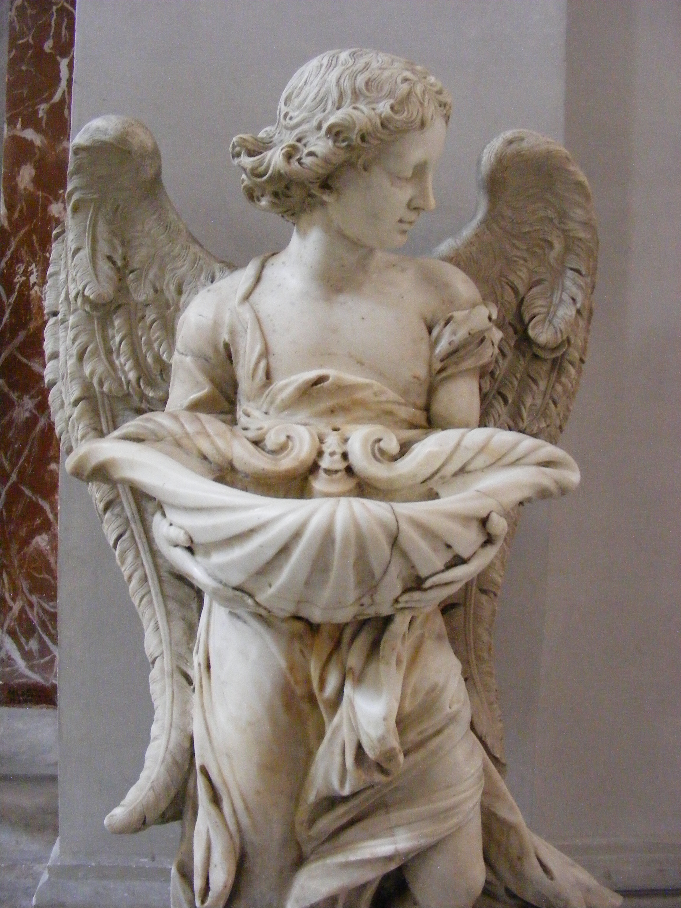 Front view of Angelo acquasantiera at Santa Maria degli Angeli, Marble attributed to Rossi student of Bernini.